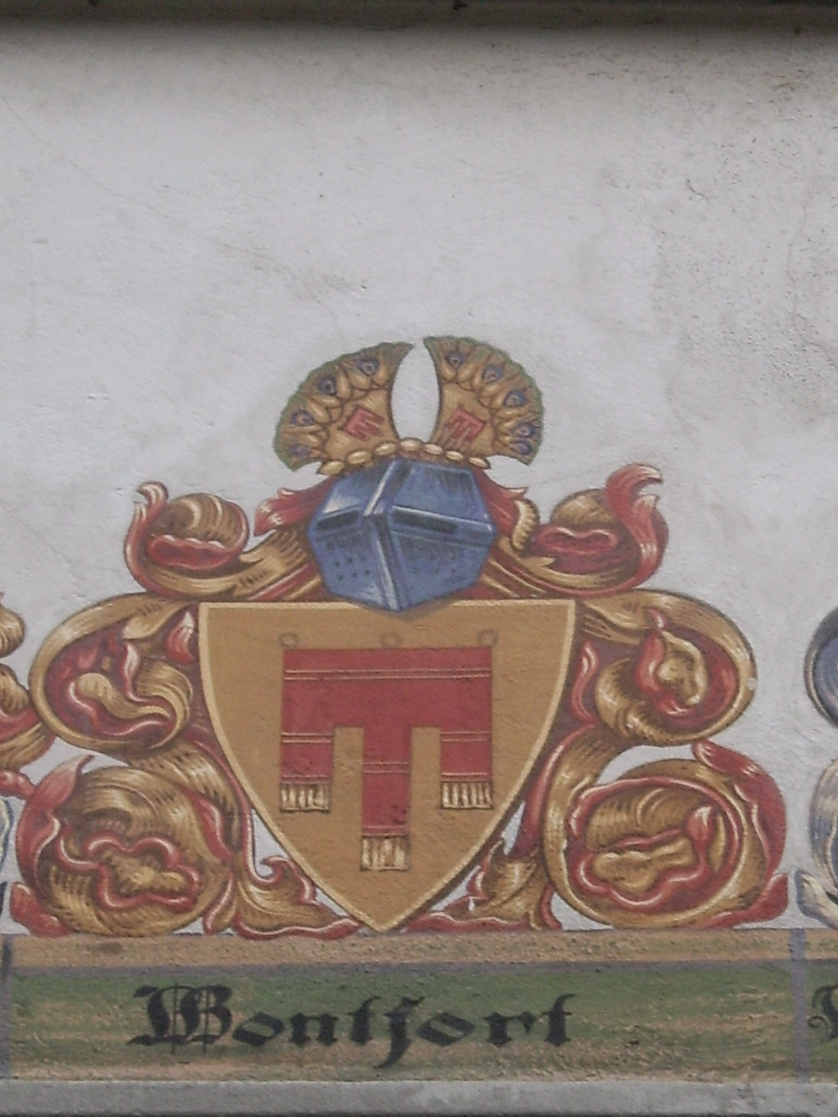 The Montfort coat of arms on a house in Werdenberg (St. Gallen/Switzerland)